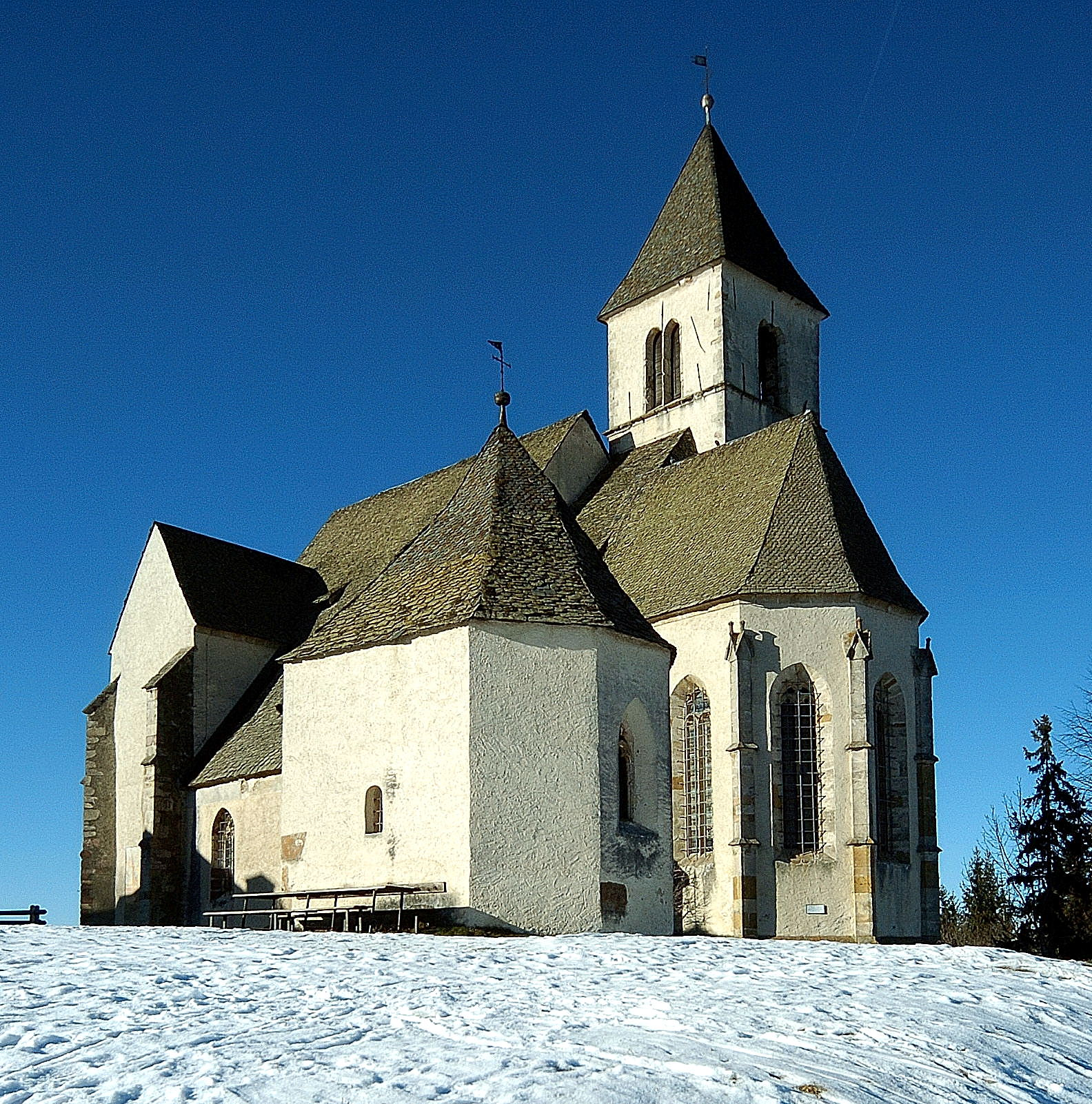 East view at the subsidiary church Saints Helena and Maria Magdalena with the Wolfgang chapel in front on top of Mount Magdalena, municipality Magdalensberg, district Klagenfurt Land, Carinthia / Austria / EU